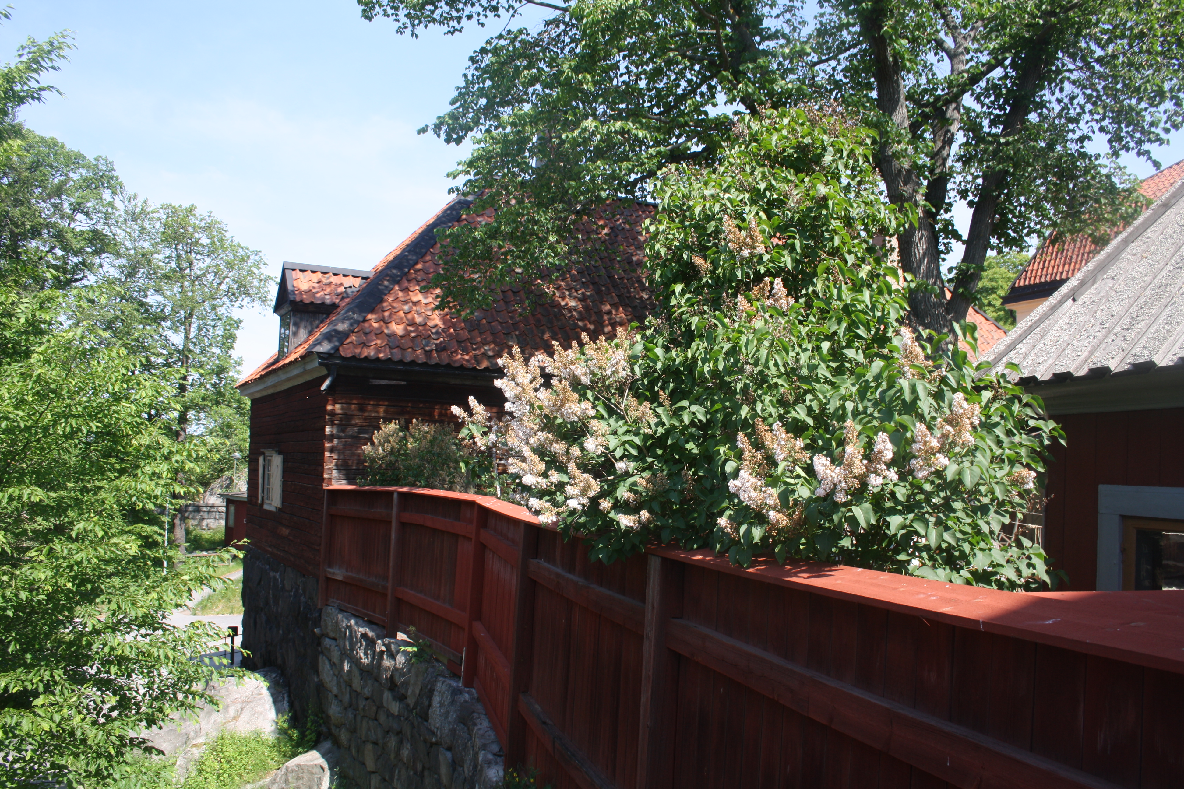 Skansen in Stockholm, Sweden at National Day of Sweden.